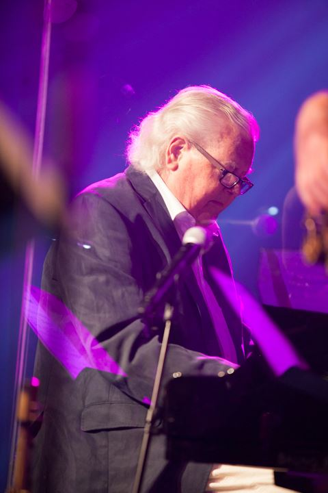 80th birthday of George Gruntz, performing at the Montreux Jazz Festival